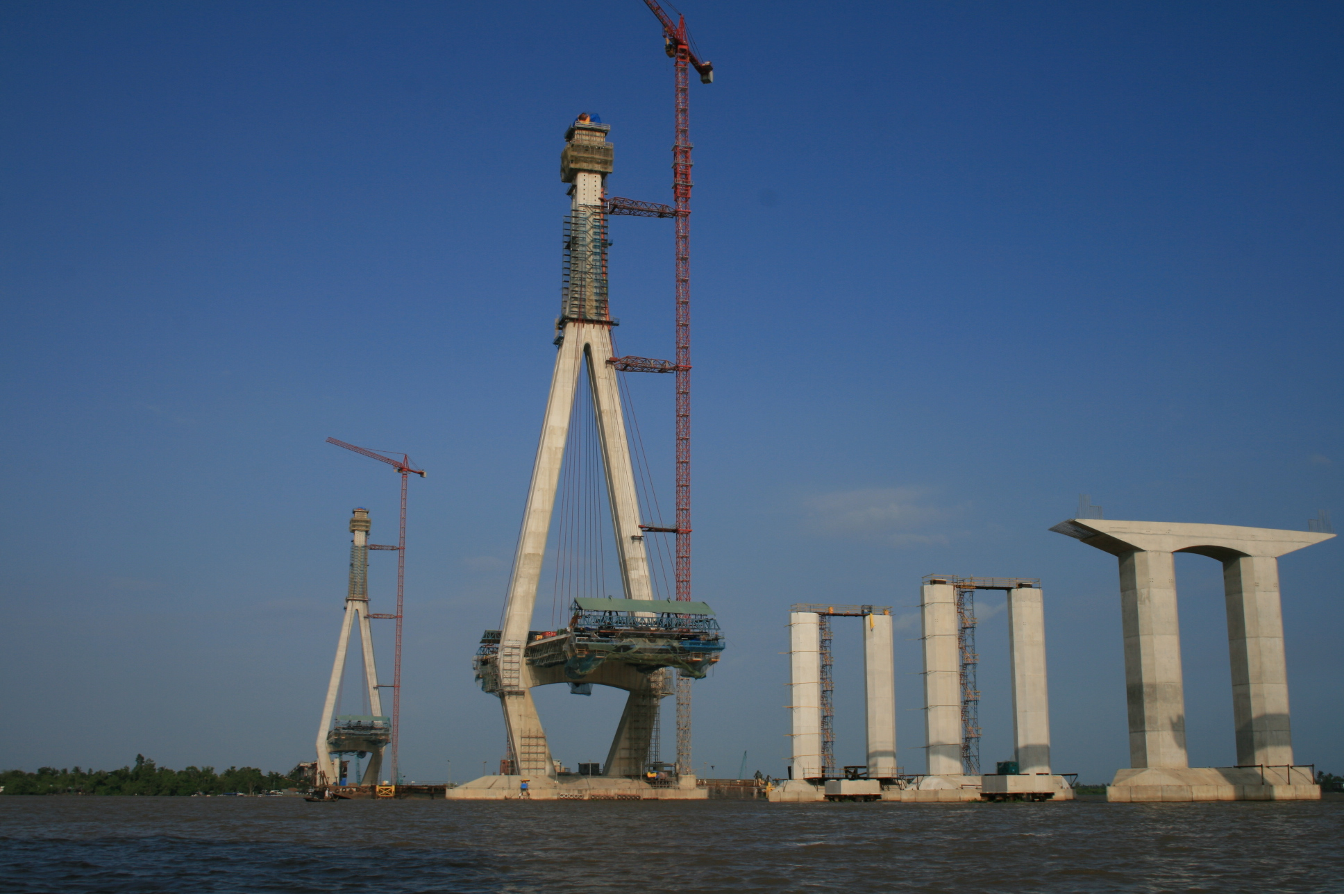 The Can Tho Bridge is a cable-stayed bridge over the Hậu (Bassac) River, the largest distributary of the Mekong River, in the city of Cần Thơ in southern Vietnam